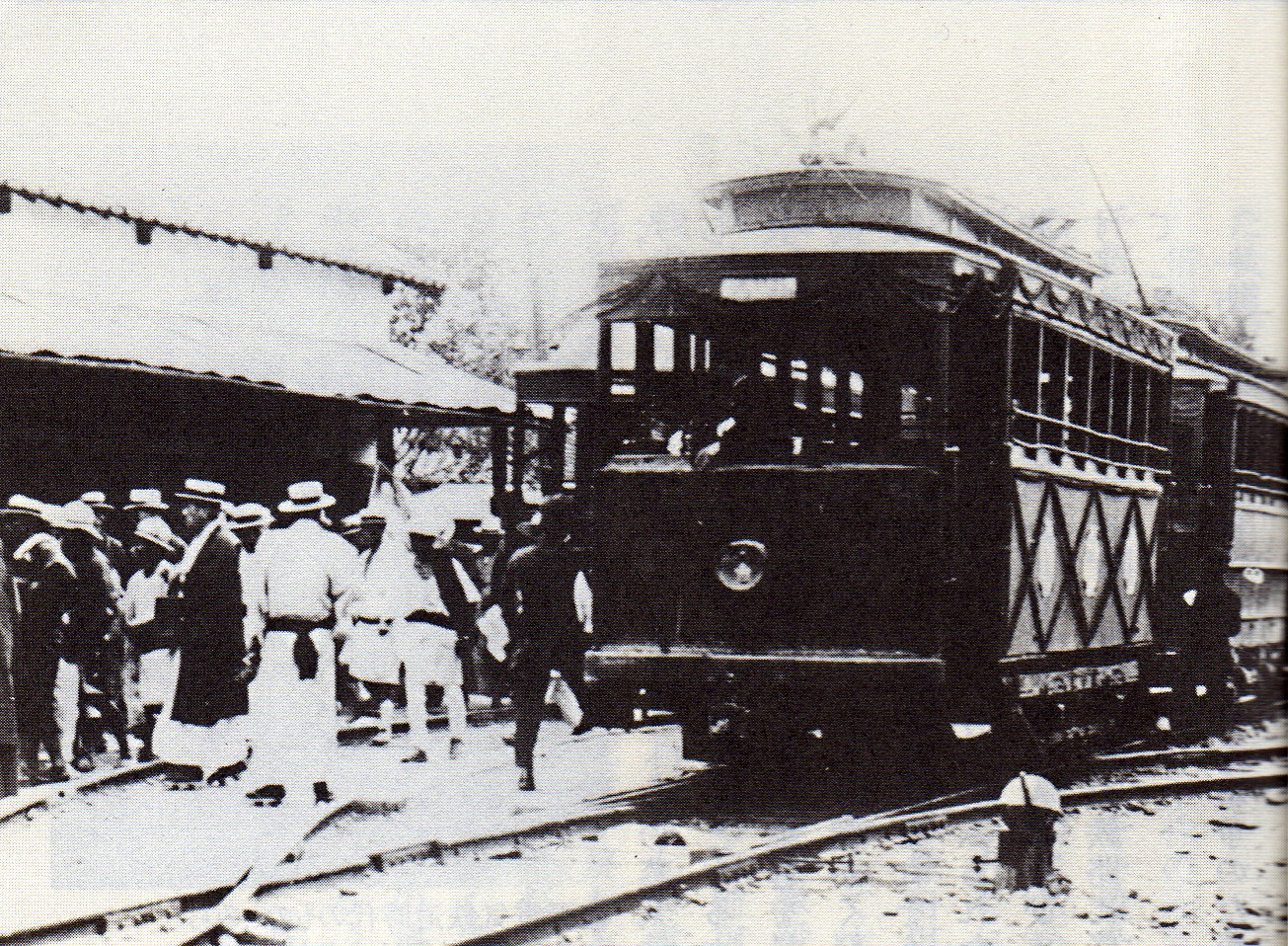 Banden Railway Tatsuno station, Tatsuno town (current Tatsuno city) Hyogo prefecture Japan.